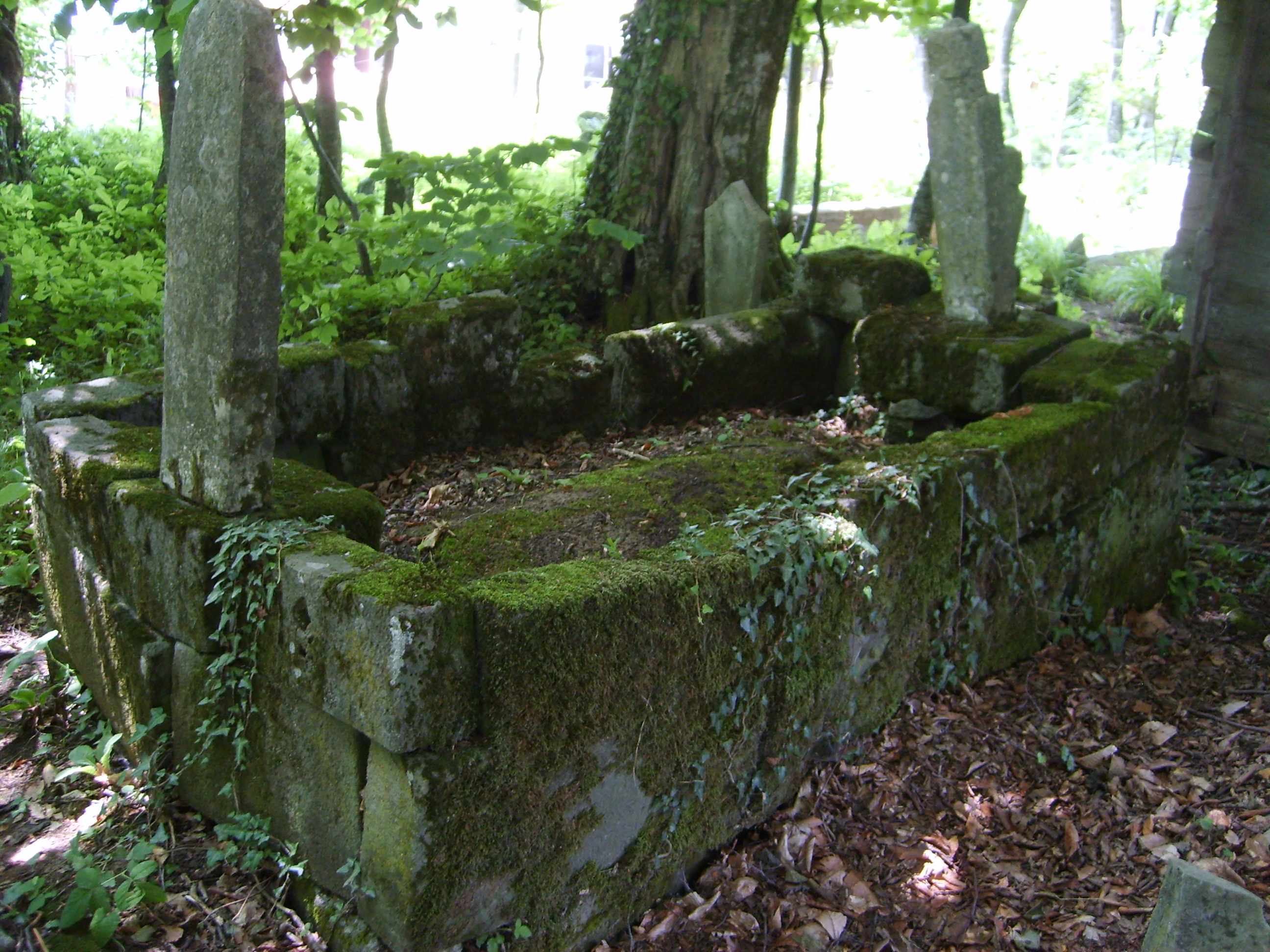 Akbaba village cemetery. Grave of Emin Ağa (Çiloğlu), 2009